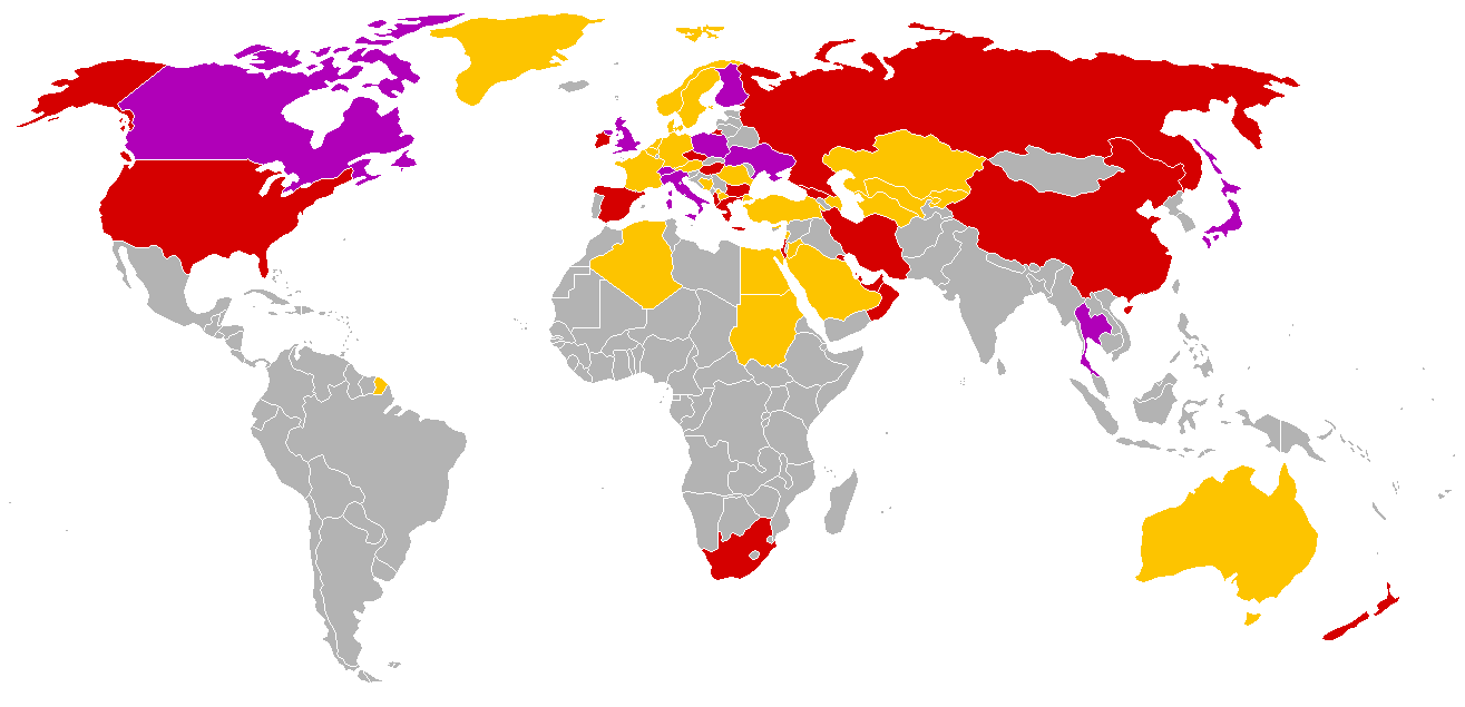 Overseas votes by party for the November 2015 Turkish general election